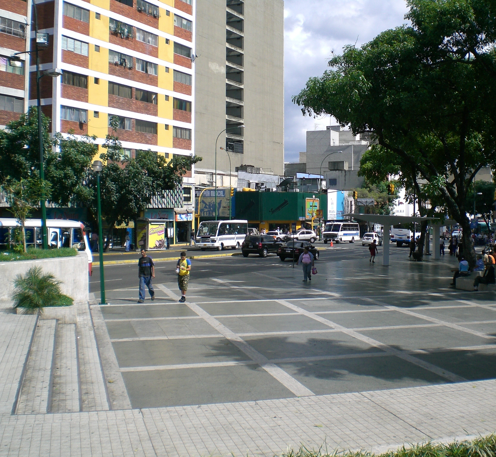 Plaza Miranda, Caracas, Venezuela